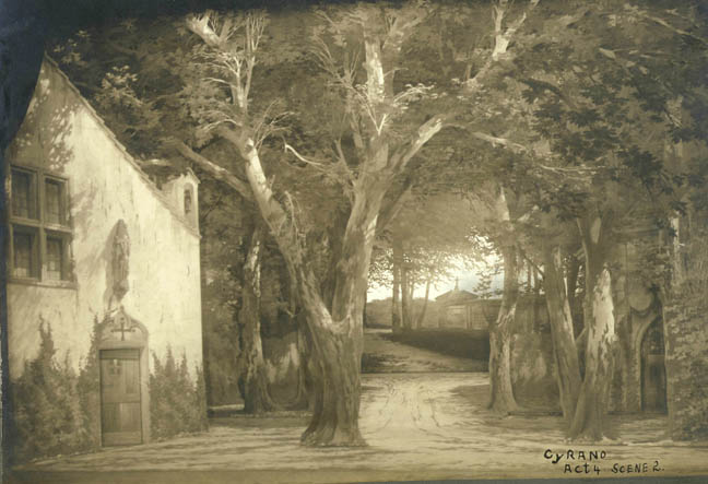 Stage setting for Act 4, Scene 2 of Cyrano at the Metropolitan Opera